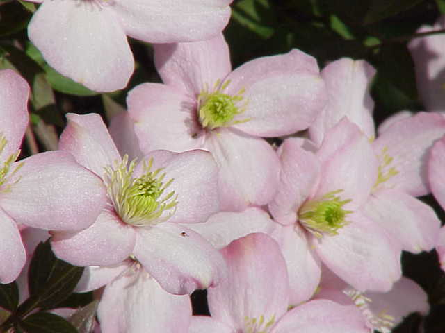 Species: Clematis montana rubens Family: Ranunculaceae Image No. 2